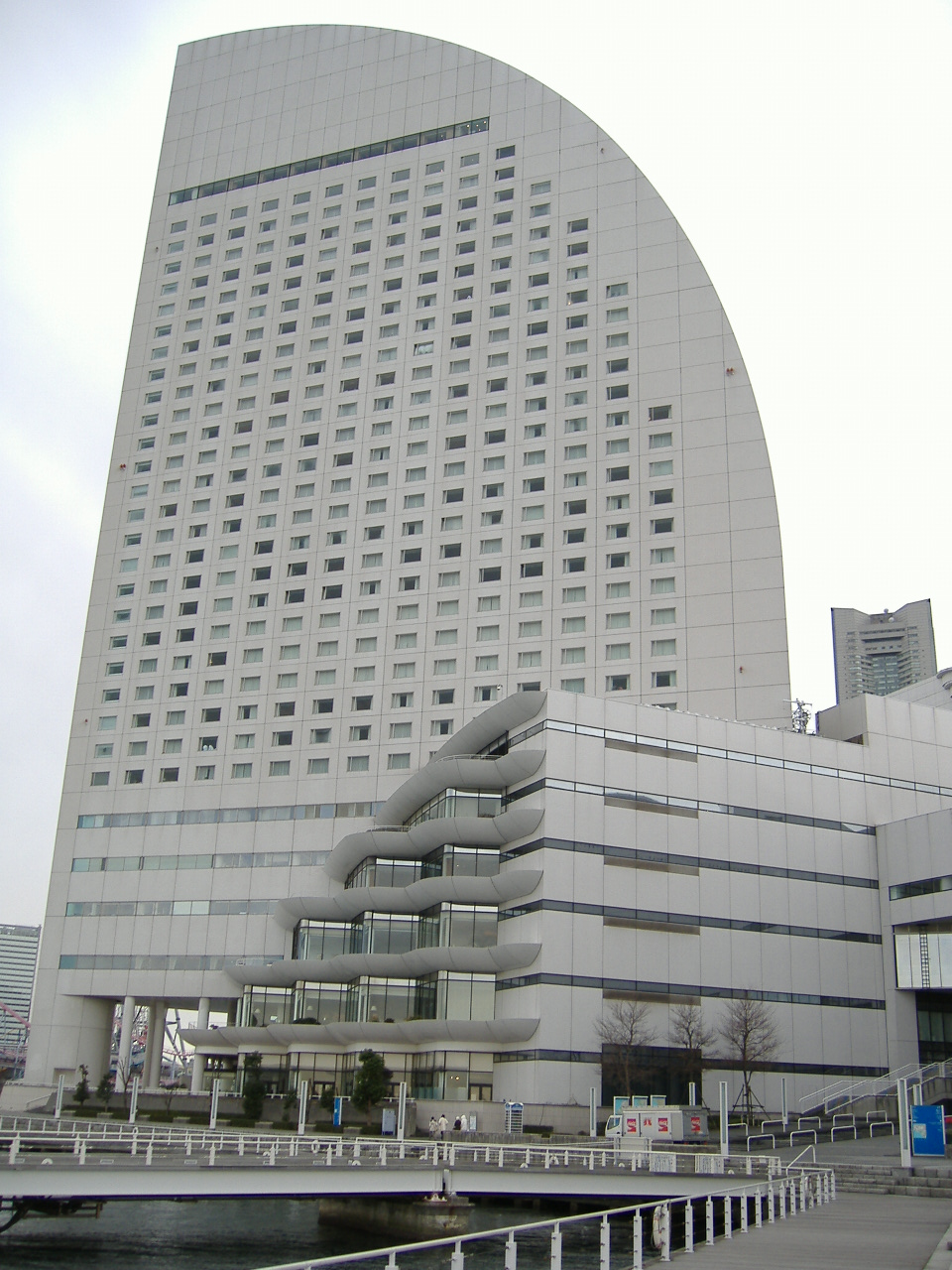 InterContinental the Grand Yokohama.